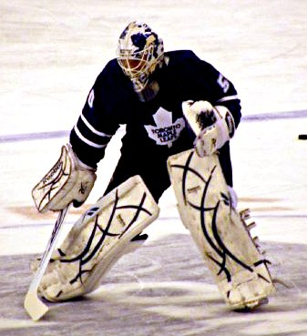 Taken at a Leafs game at the ACC vs. Minnesota